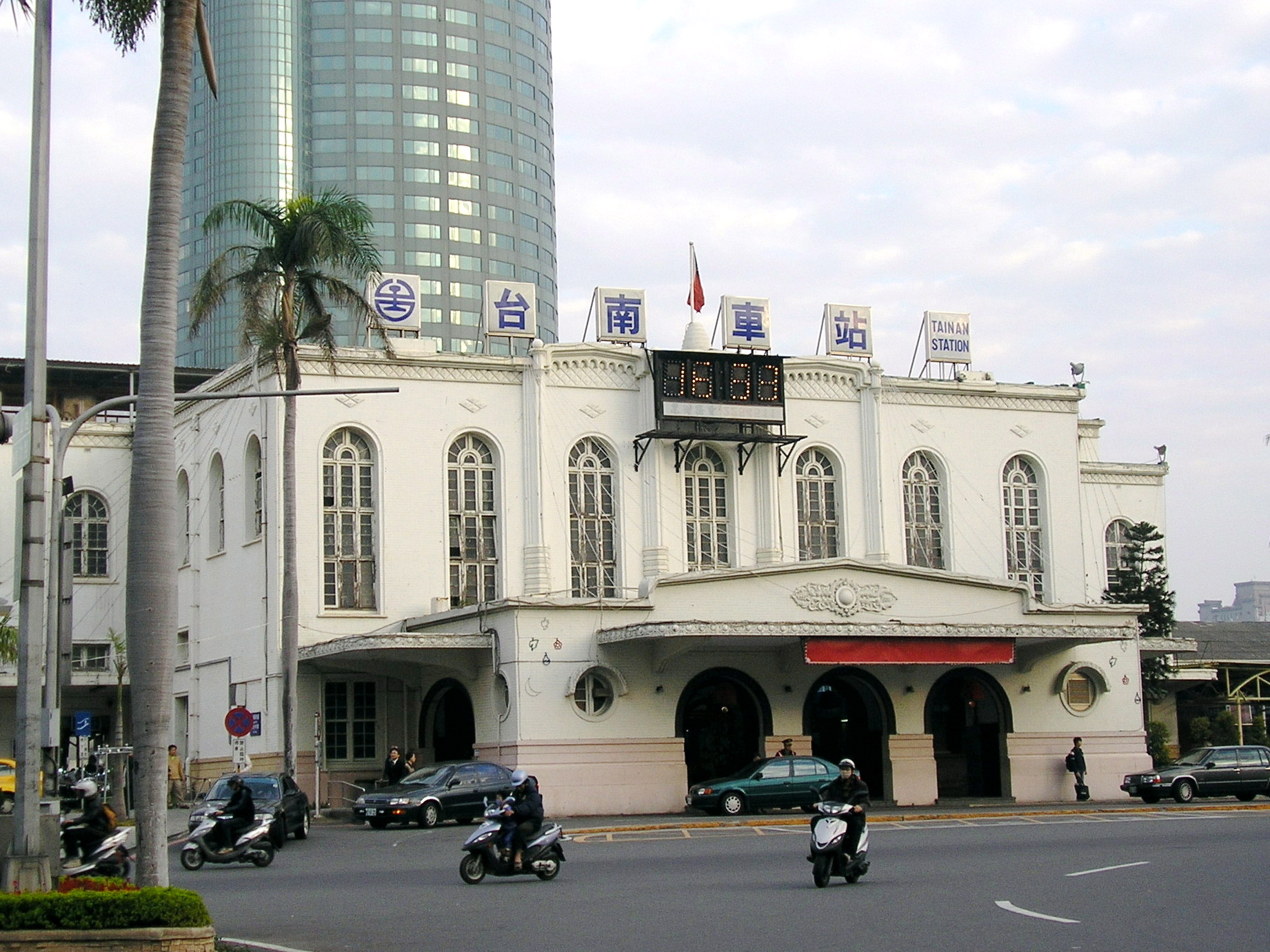 Front of the TRA Tainan Train Station. Taken by User:Changlc in Tainan, Taiwan, 1-10-2006.